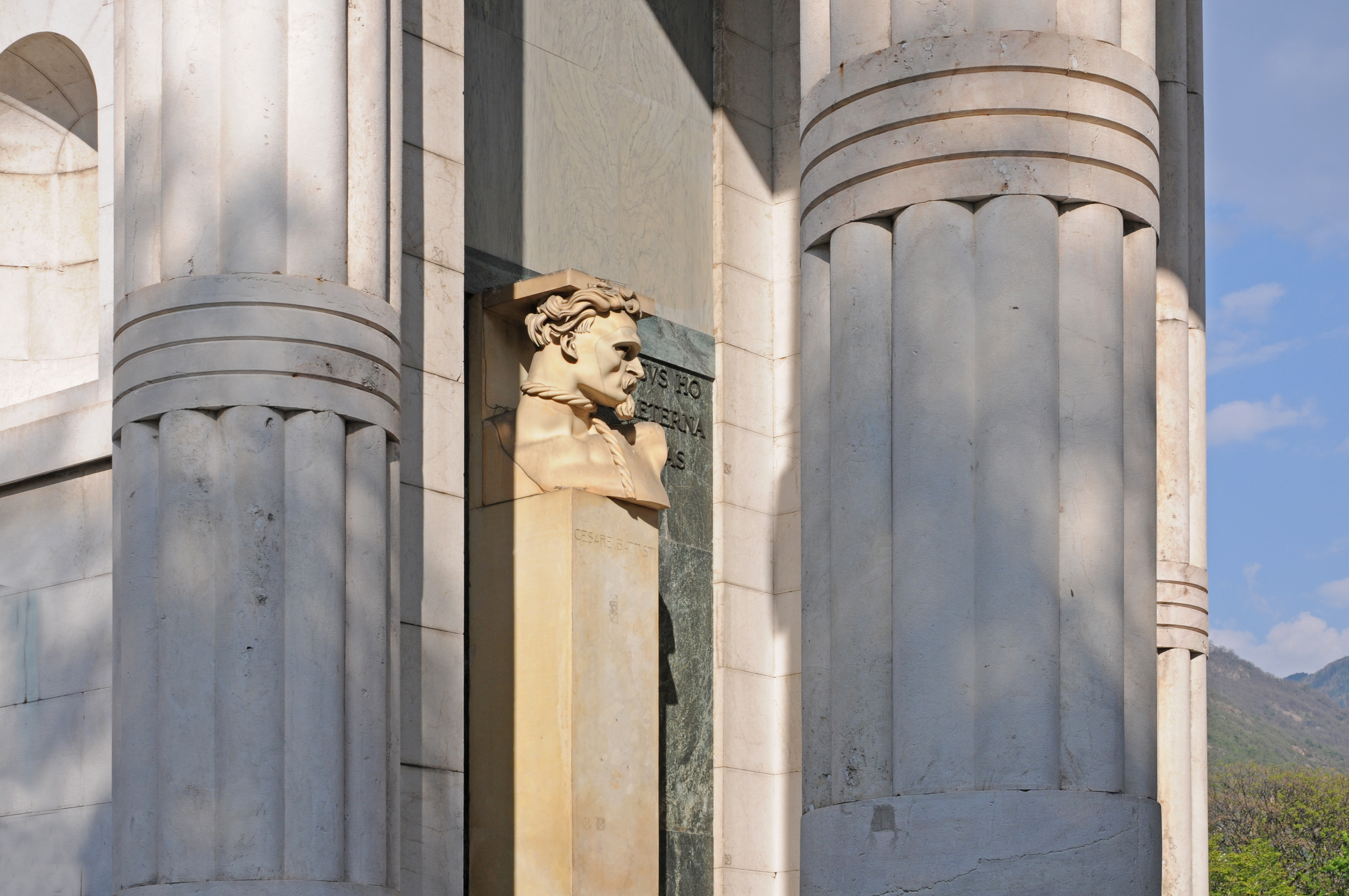 Cesare Battisti by Adolfo Wildt (Milano, 1 marzo 1868 – Milano, 12 maggio 1931) in the Monumento della Vittoria (Bolzano Victory Monument) in Bolzano Italy